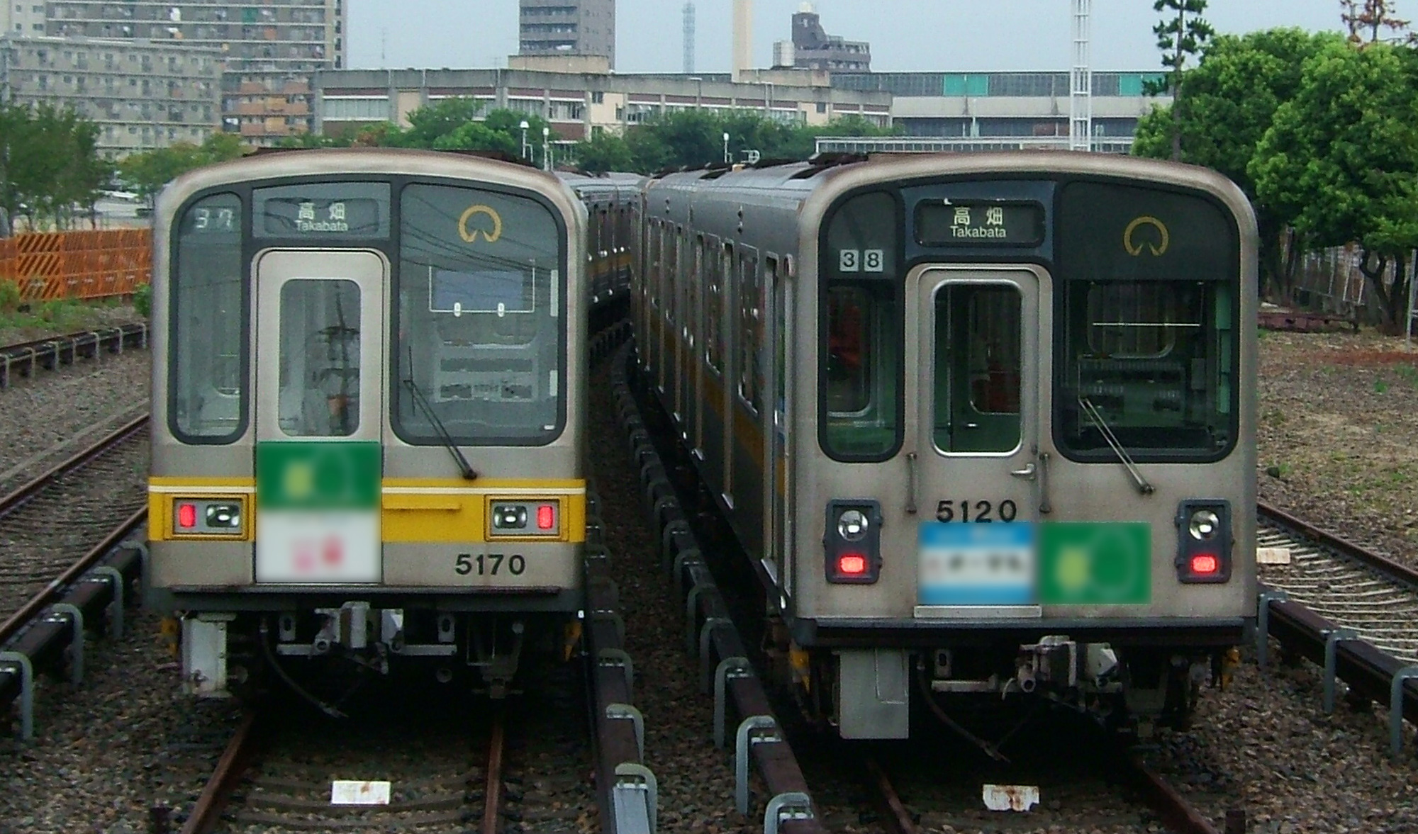 Nagoya Municipal Subway Higashiyama Line 5050 series (left) and 5000 series (right) trains